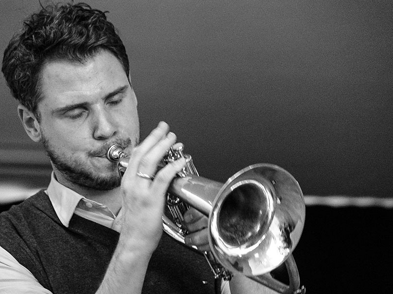 Mads La Cour Aarhus, Denmark 2013